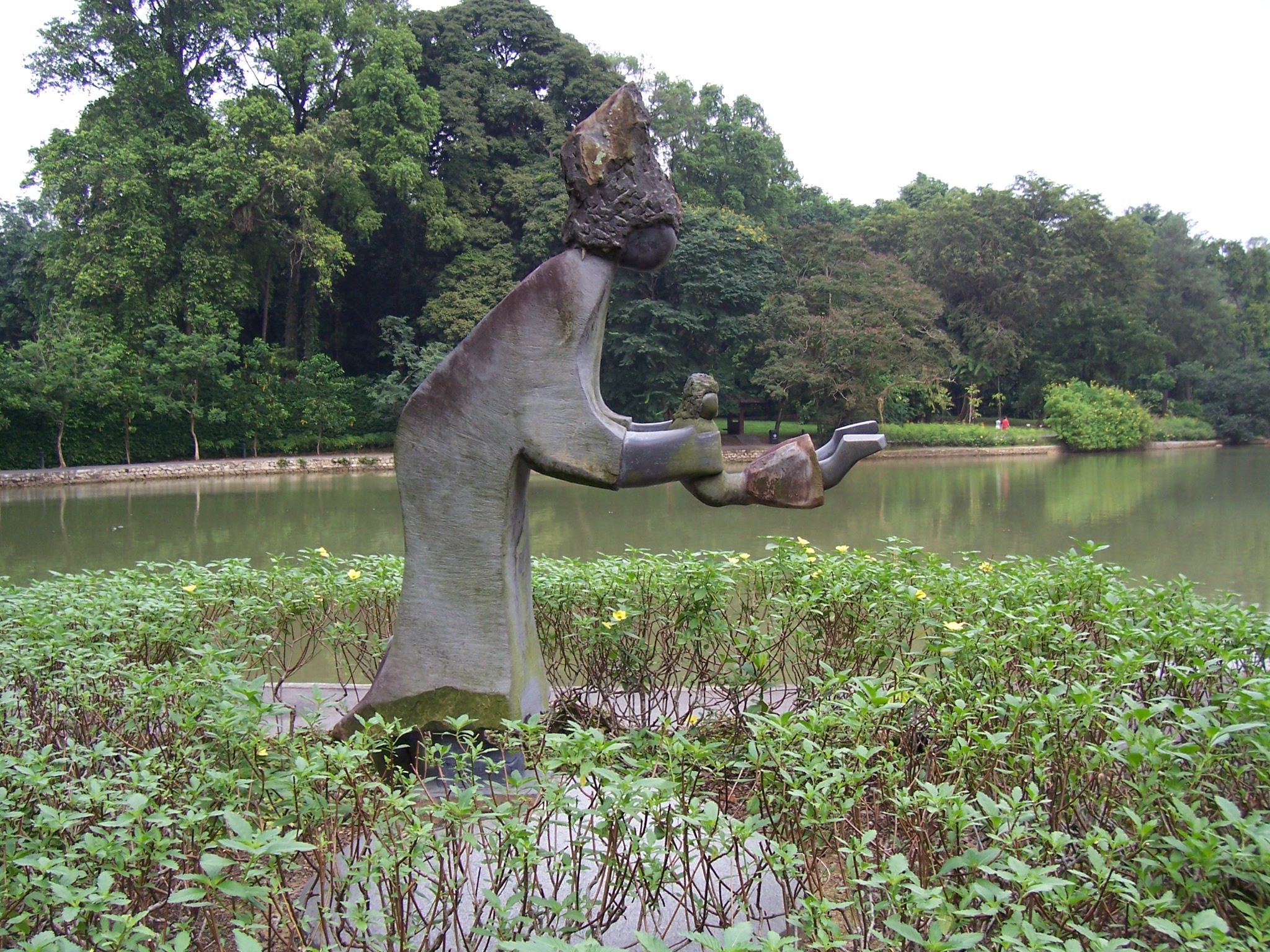 Swing Me Mama (1995), a statue made of serpentine by Zimbabwean sculptor Dominic Benhura in the Singapore Botanic Gardens. It is installed in the Tanglin Core area of the Gardens. See Sculptures. Singapore Botanic Gardens (2007). Archived from the original on 2008-07-31. Retrieved on 2010-06-03.